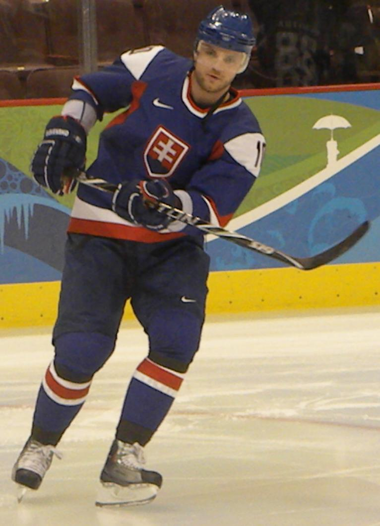 Marian Gaborik of the Slovakia men's national ice hockey team, warming up before a match against the Czech Republic men's national ice hockey team in the 2010 Winter Olympics at Canada Hockey Place on February 17, 2010.